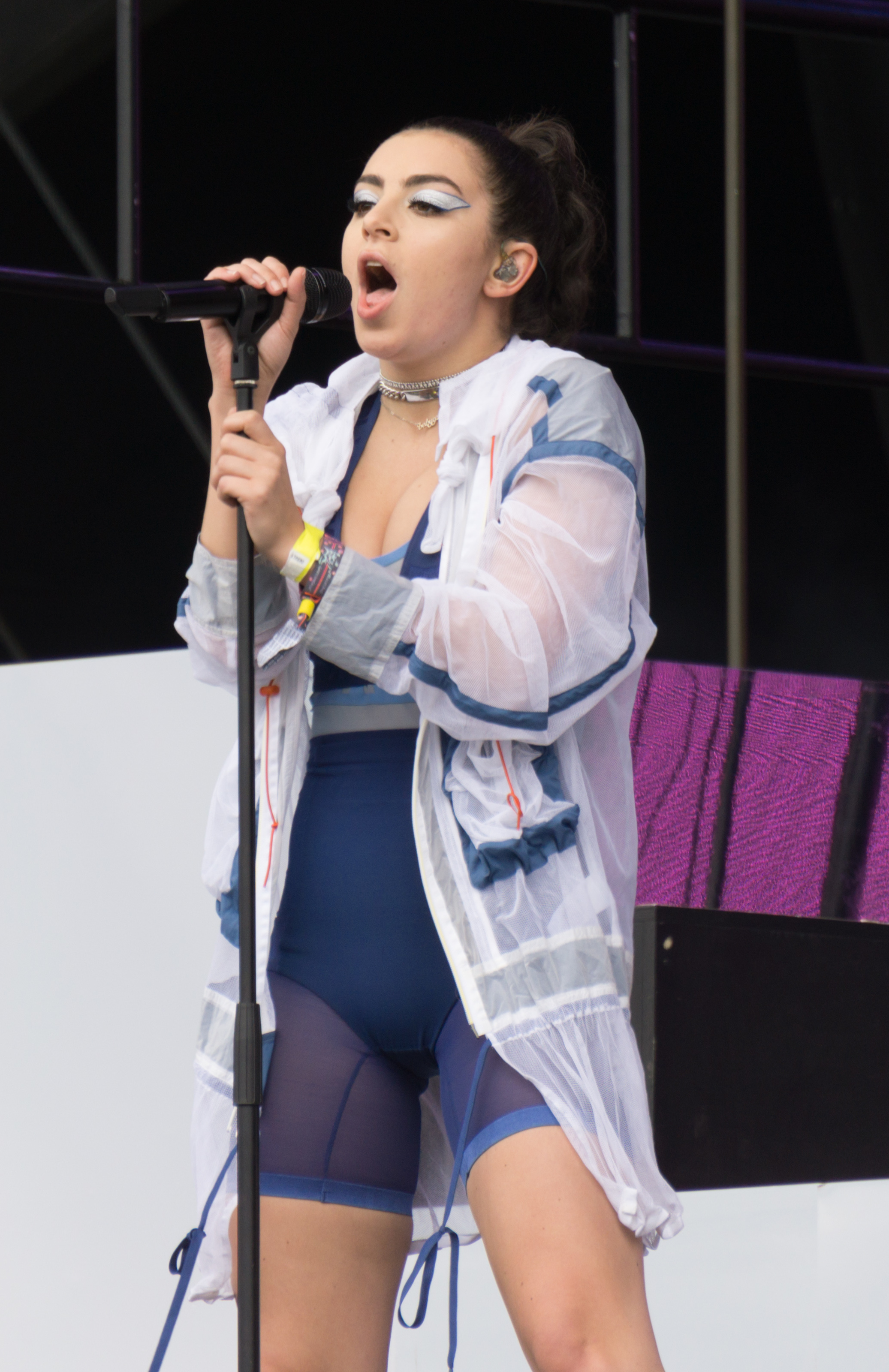 Charli XCX performing at Glastonbury 2017.